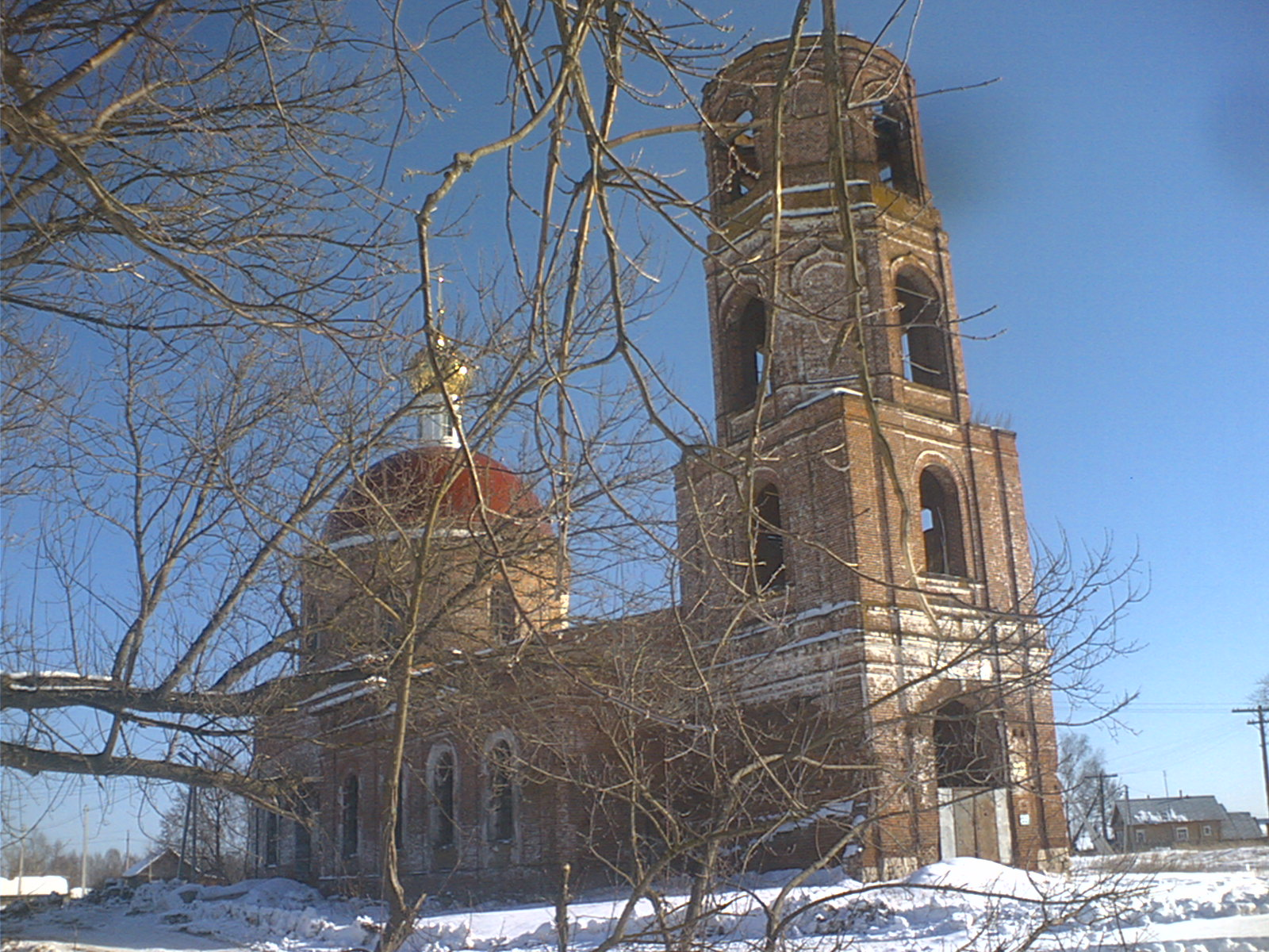 Church of the Renewal of the Temple of the Resurrection in Kupliyam village, Yegorievsk District, Moscow Oblast.